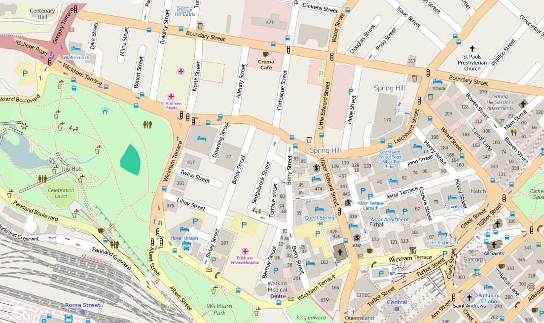 Open Street Map - Wickham Terrace, 2015